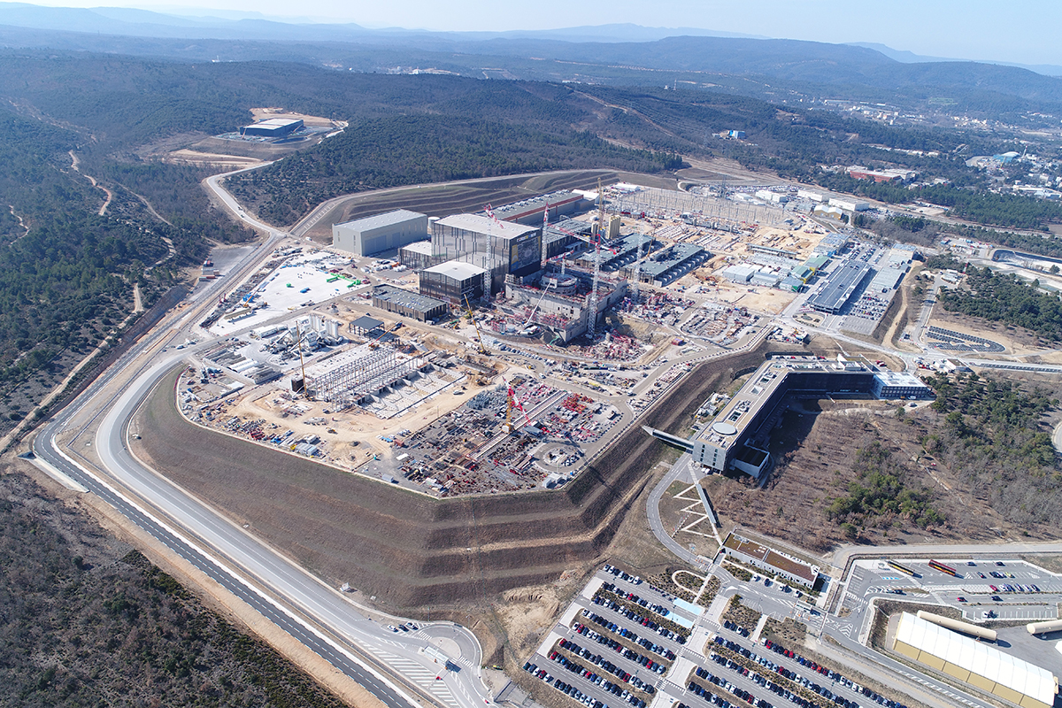 Aerial view of the ITER site during construction in 2018.